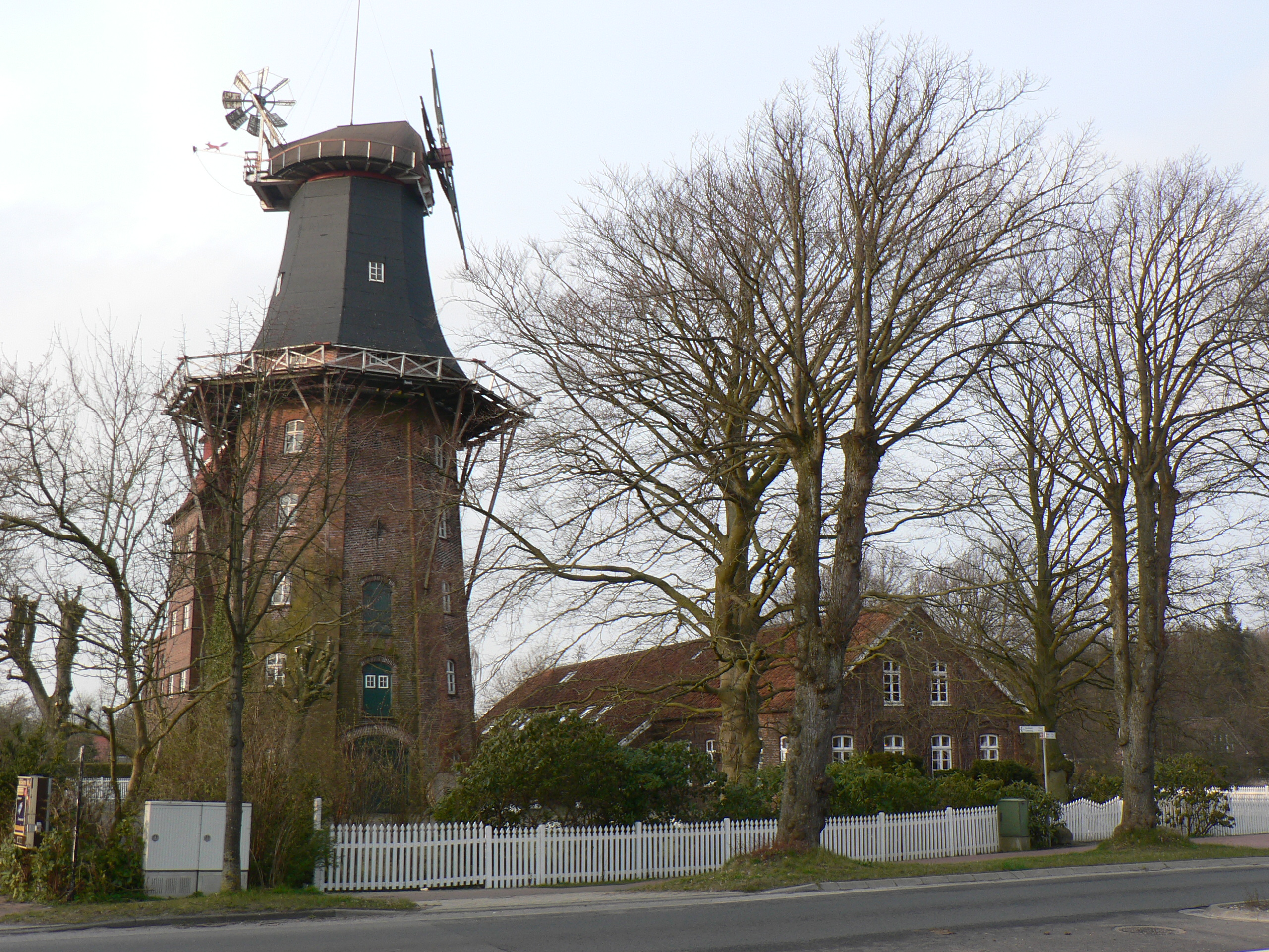 The windmill of Hage, currently wingless.